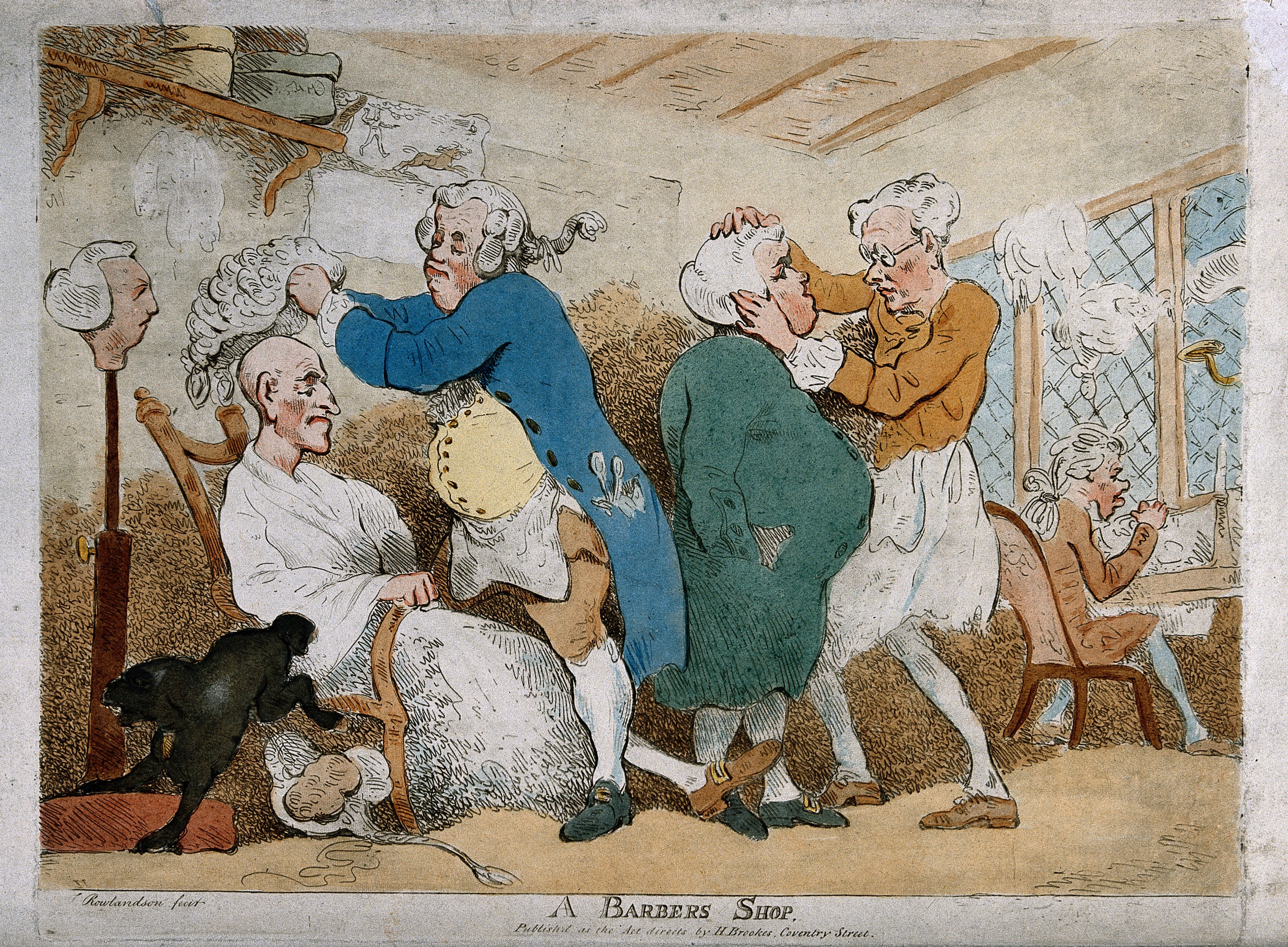 A barber's shop in which a fat barber places a wig on an old bald-headed man, an assistant barber who wears spectacles fits a wig on a stout man, in the righthand background a man sits on a chair facing a window, and in the lefthand foreground a dog fouls a wig. Iconographic Collections Keywords: Wig; Hairstyle; Fashion; Hair; Wig macker; Thomas Rowlandson; Hairdressing